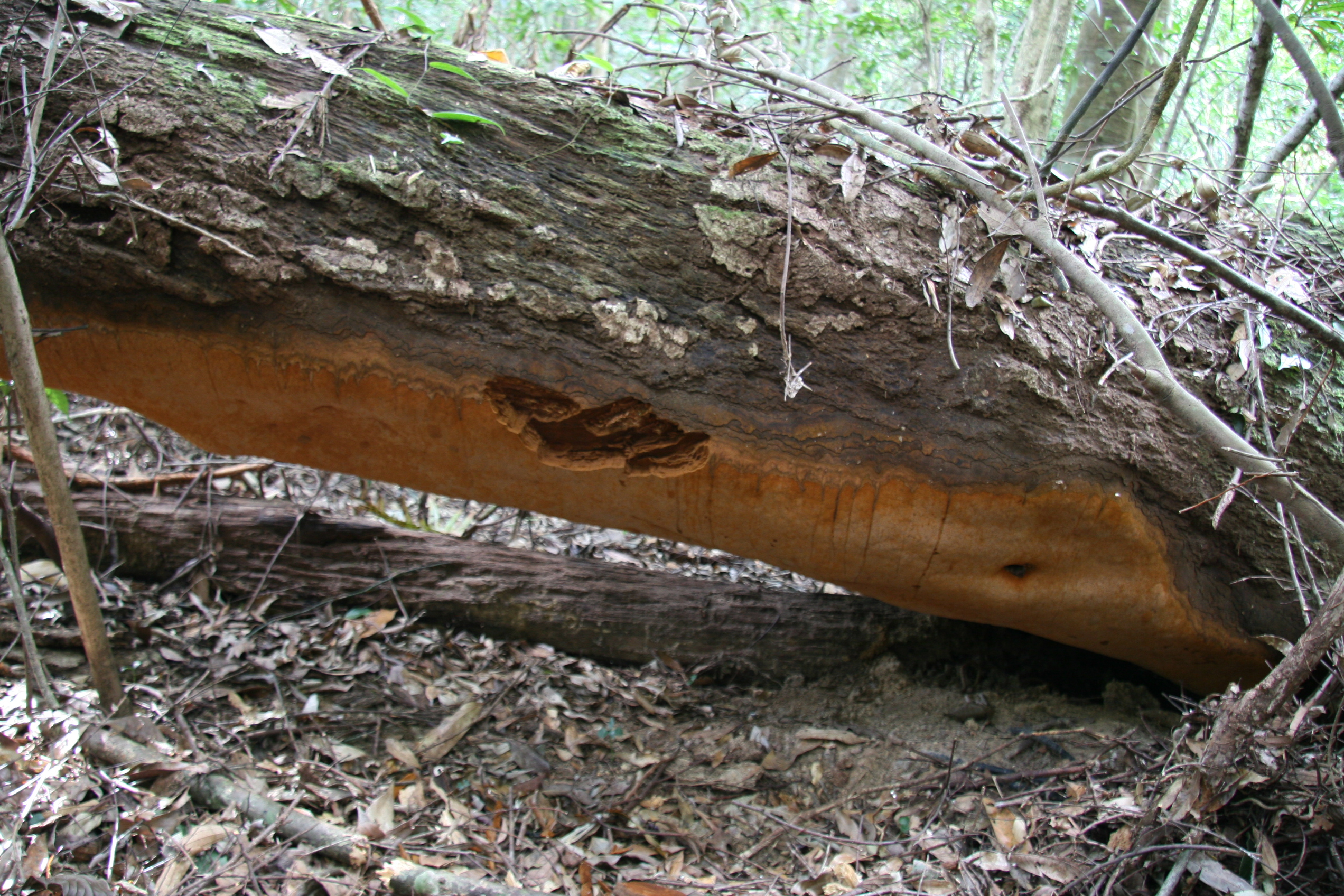 Phellinus ellipsoidea. Image shows the largest fungal fruit body ever recorded.